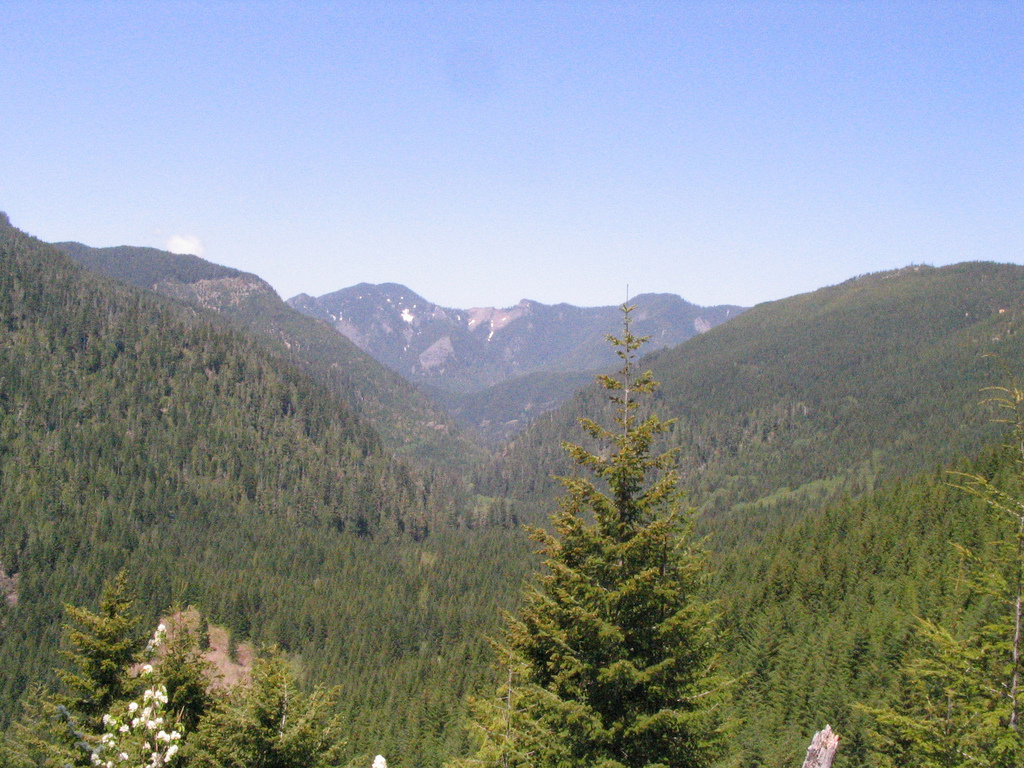 View of Santiam State Forest in the Cascade Mountains of Oregon, 2009